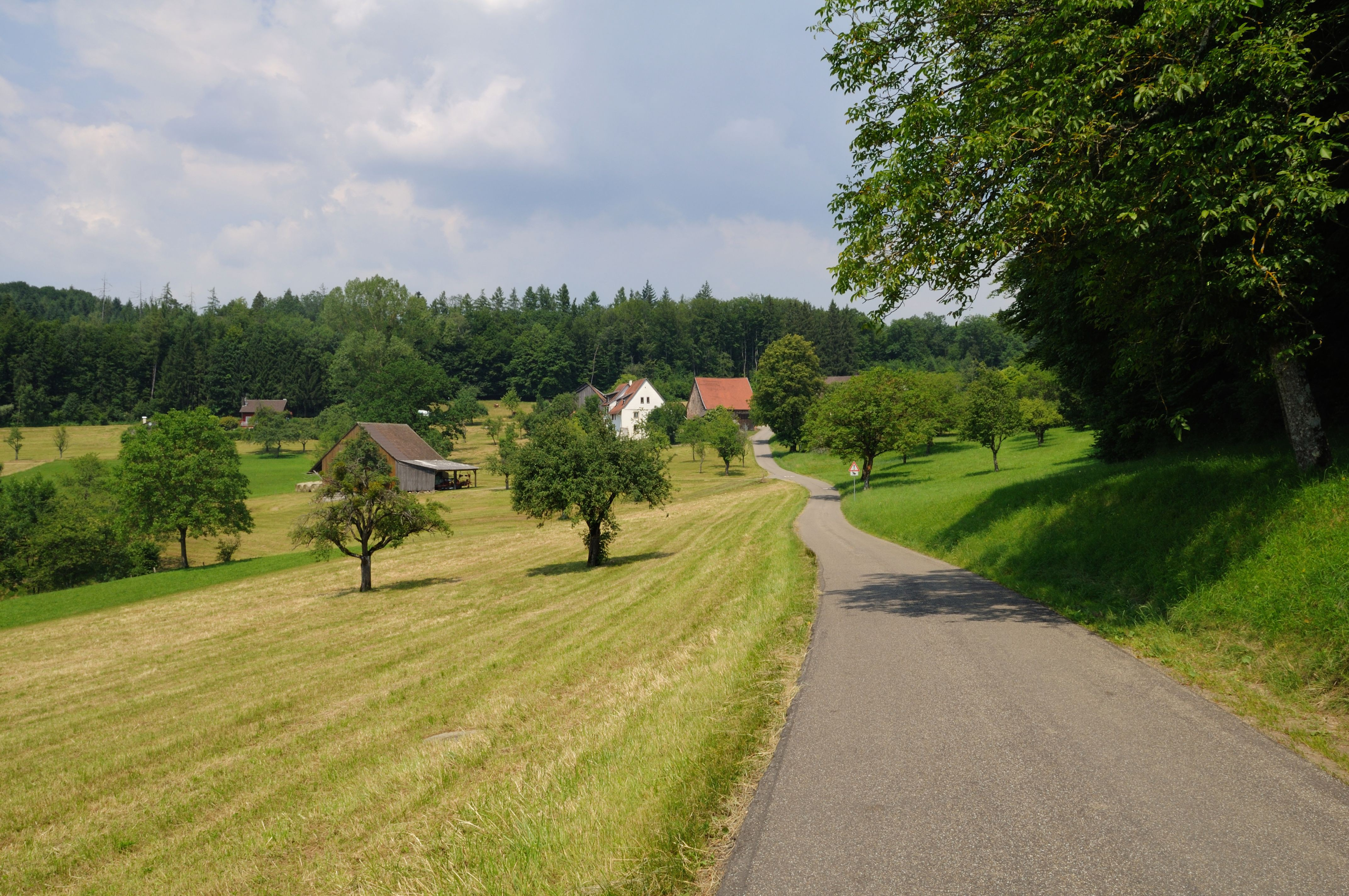 Hauingen: Rechberg (hamlet)